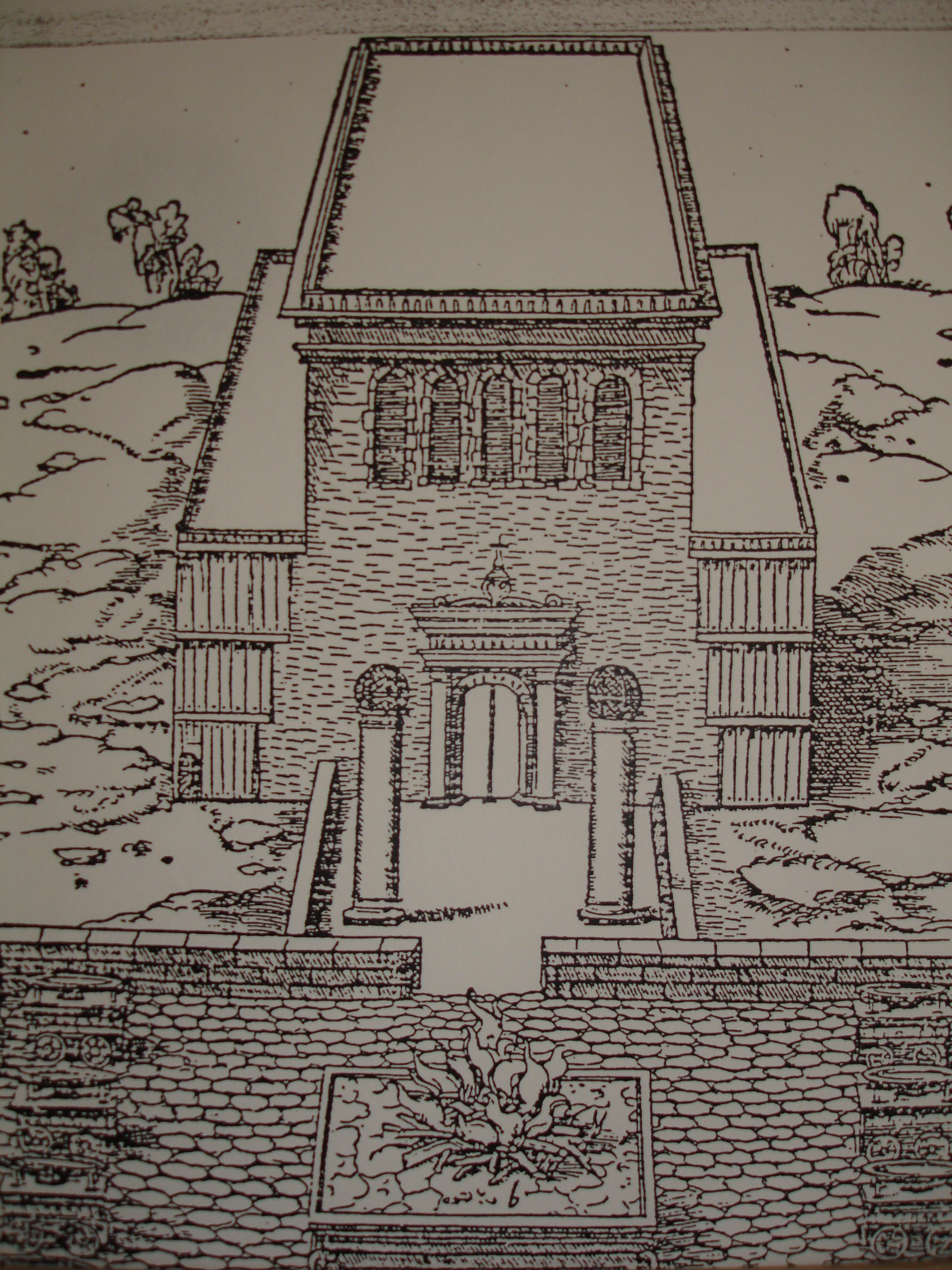 Sixteenth century gravure of a reconstruction of the temple of Solomon (detail)